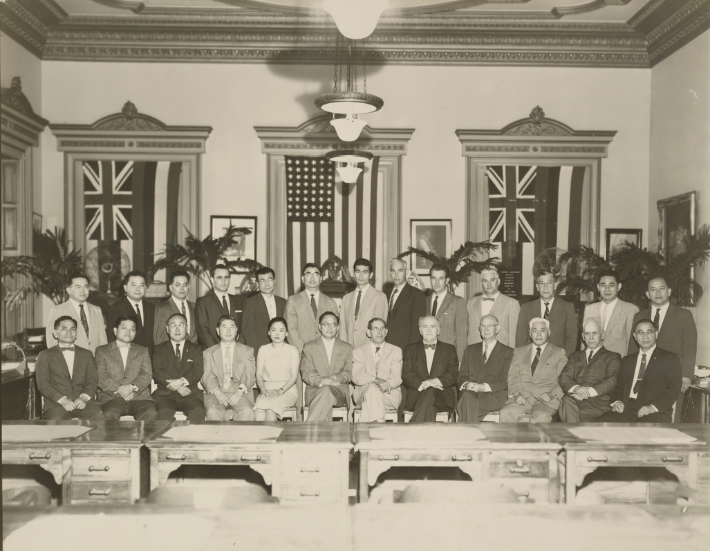 Image shows Patsy Mink, first woman elected to the 1958 Hawaii Territorial Senate and her colleagues